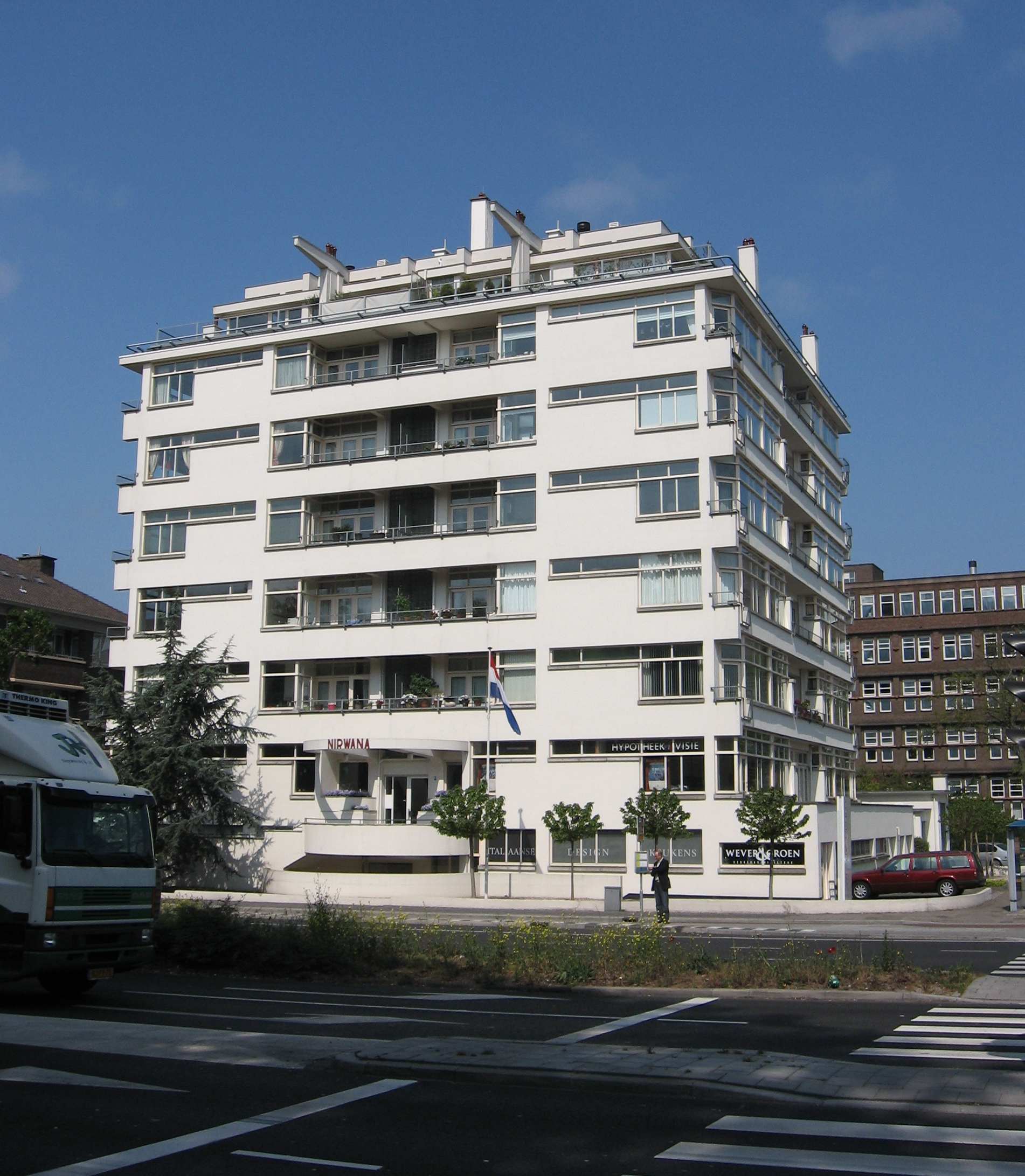 Nirwana, first residential building called flat in Netherlands